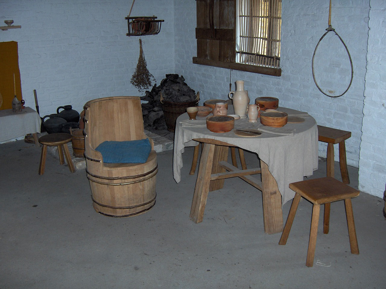 Restored barrel chair and stools, c. 1465, in a recreated scene; at the archeological site of Walraversijde, near Oostende, Belgium